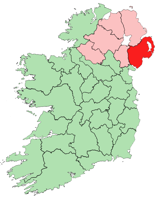 Location of County Down on island of Ireland